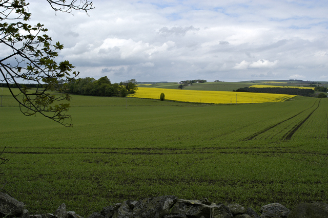 Crops near Methlick. Looking north towards Methlick. The ubiquitous rapeseed in the distance and late wheat (I think) in the foreground